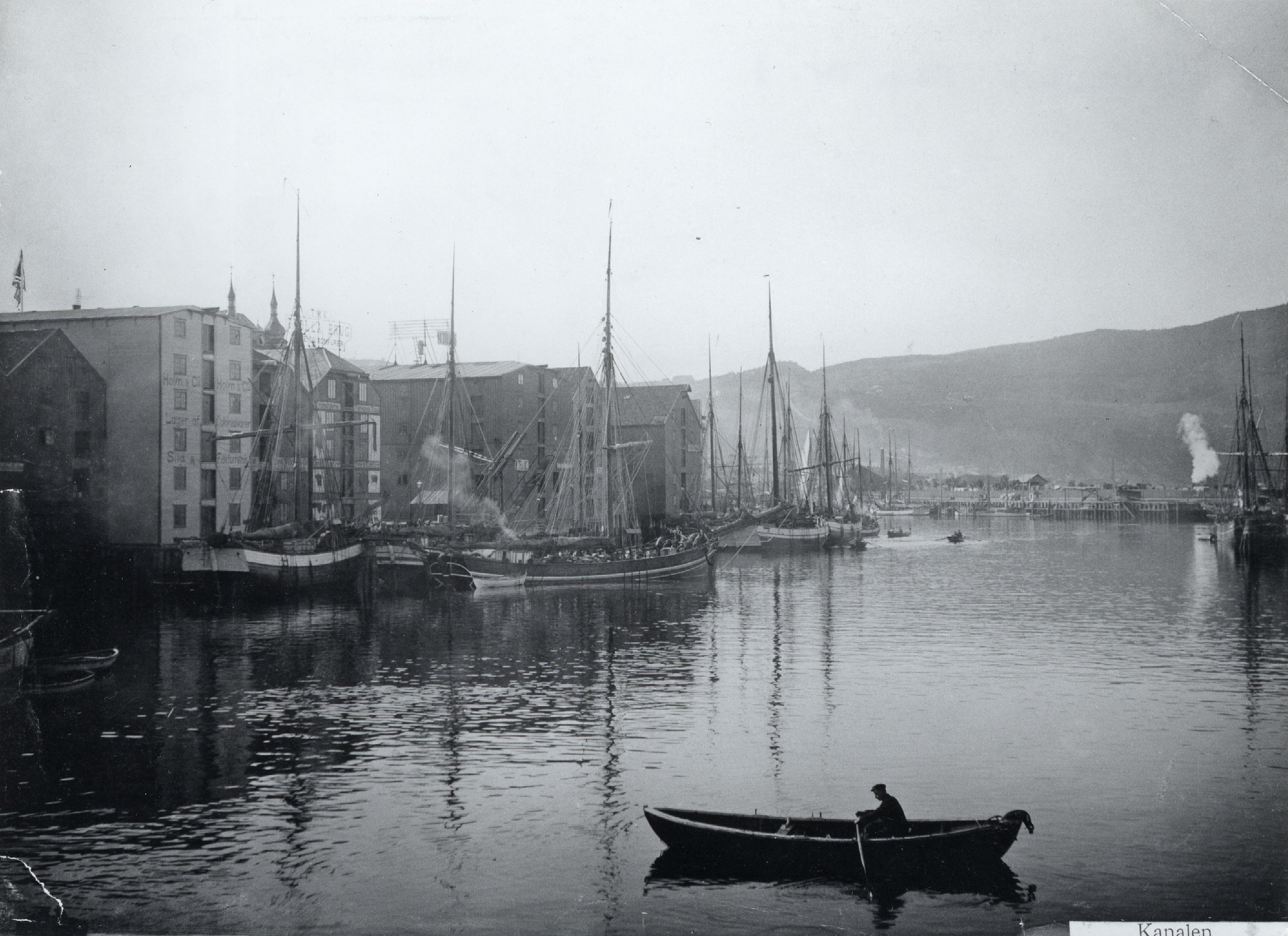 Format: Fotopositiv (postkort) Dato / Date: 1906 Fotograf / Photographer: Ukjent, utgitt på A. Holbæk Eriksens Forlag Sted / Place: Kanalen, Trondheim Wikipedia: Fløttmann Eier / Owner Institution: Trondheim byarkiv, The Municipal Archives of Trondheim Arkivreferanse / Archive reference: Tor.H45.F9949